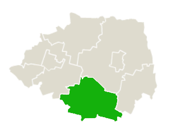 Outline Map of Gmina Bocki